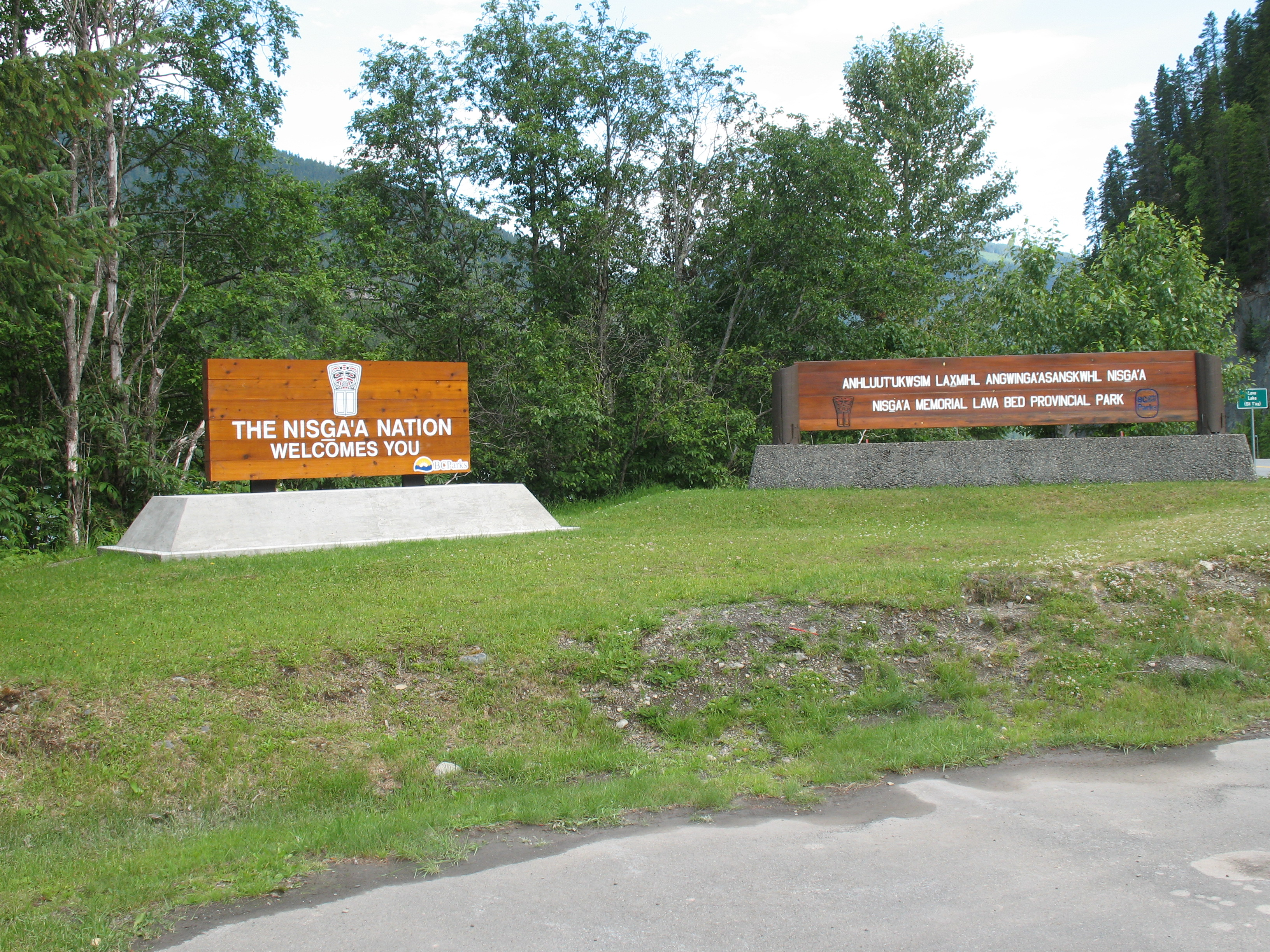 information board, welcoming visitors to Nisga'a land